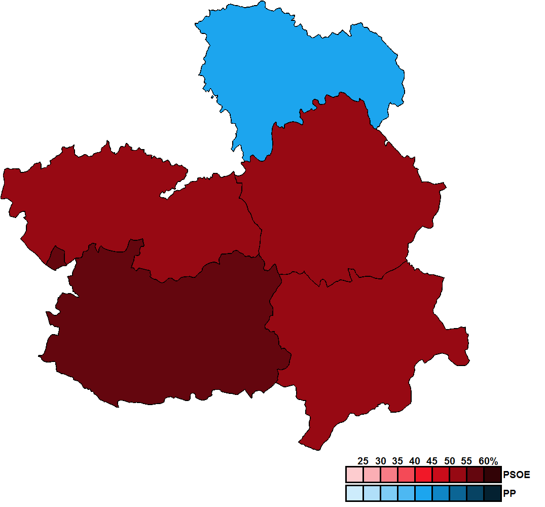 Provincial results for the 1991 Castilian-Manchegan regional election.